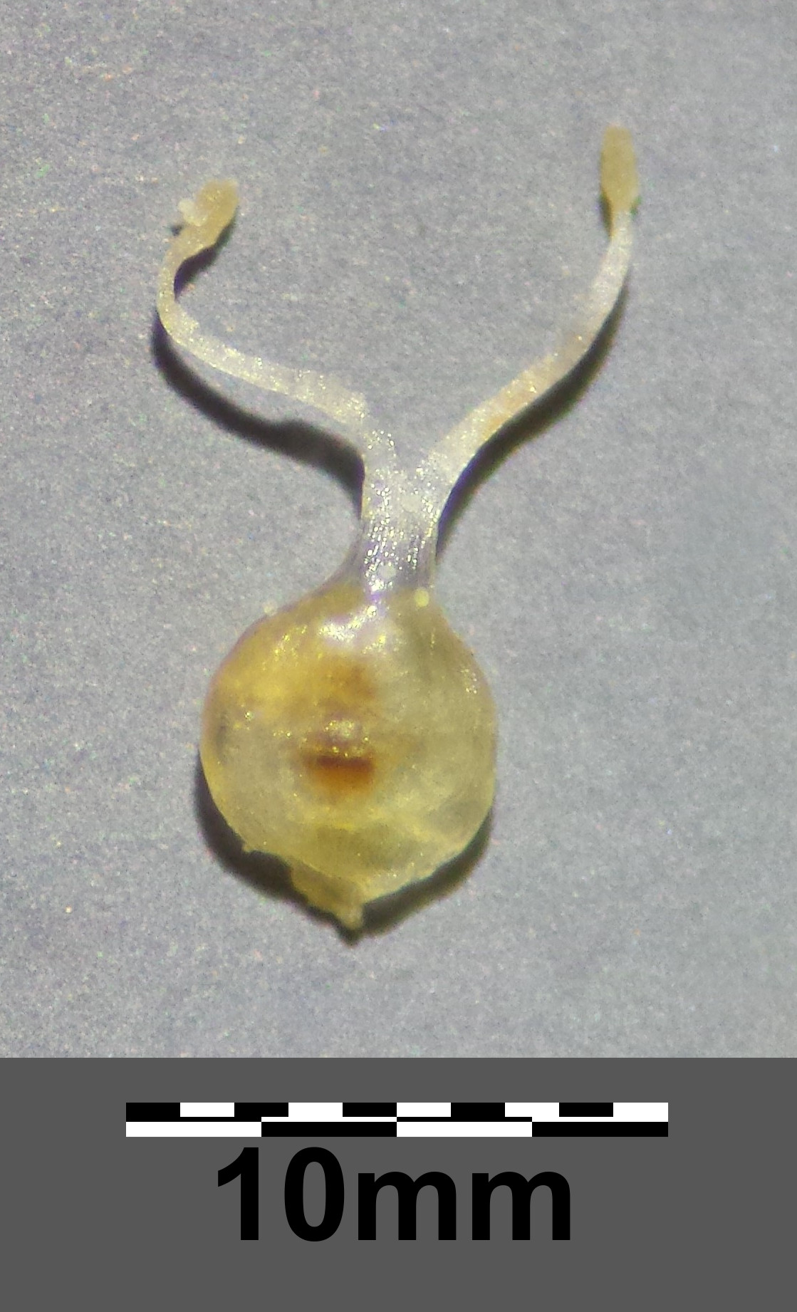 Ovary with styli Taxonym: Persicaria lapathifolia subsp. brittingeri ss Fischer et al. EfÖLS 2008 ISBN 978-3-85474-187-9 Location: Schichtgründe, Leopoldau, Vienna-Floridsdorf - ca. 160 m a.s.l. Habitat: building zone